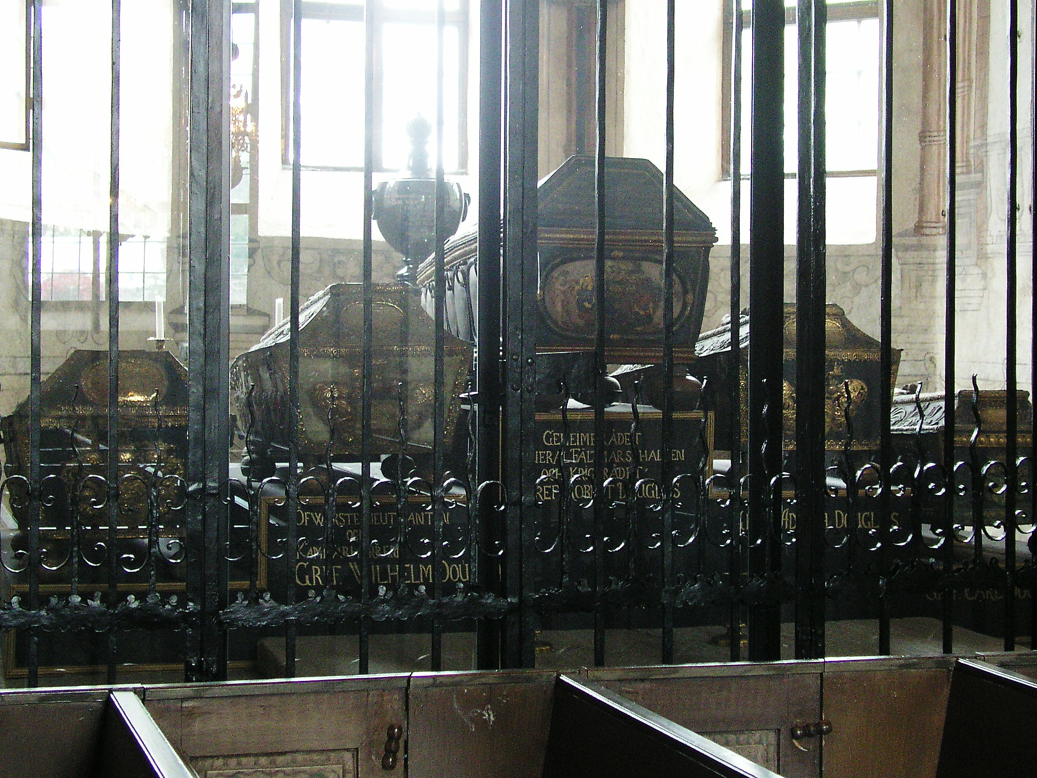 Vreta klosters kyrka / Vreta monastery Church. Sarcofaghus of family Douglas. The photo was taken by Håkan Svensson (Xauxa) the 28th September 2003.